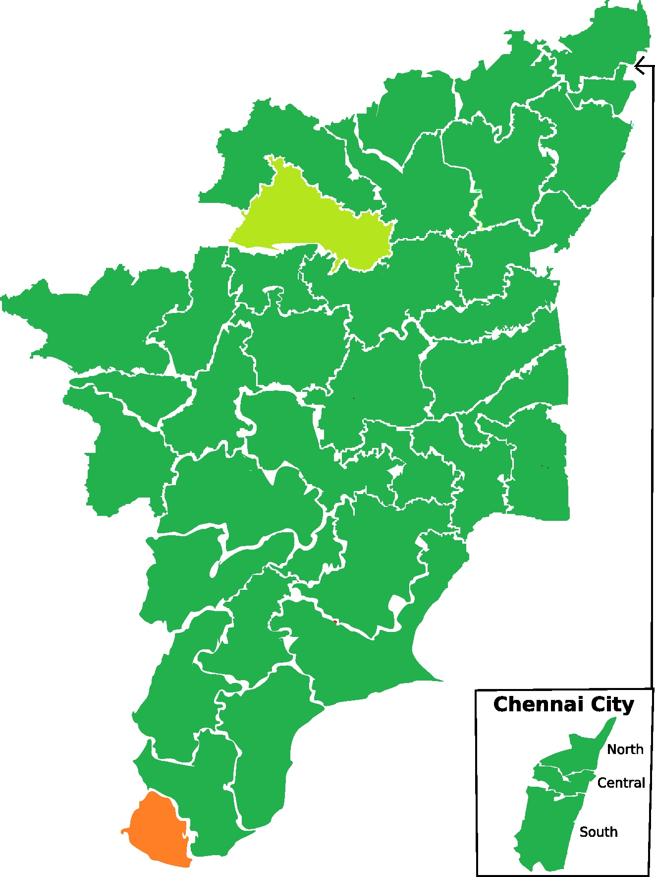 2014 Lok Sabha result of Tamil Nadu by constituencywise. Source: eci